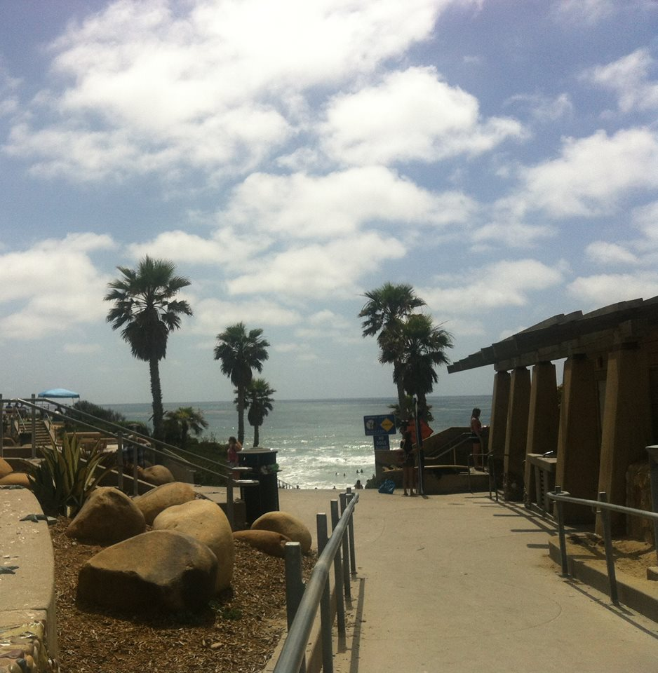 This is taken at the entrance of Solana Beach, California, USA in June 2013.